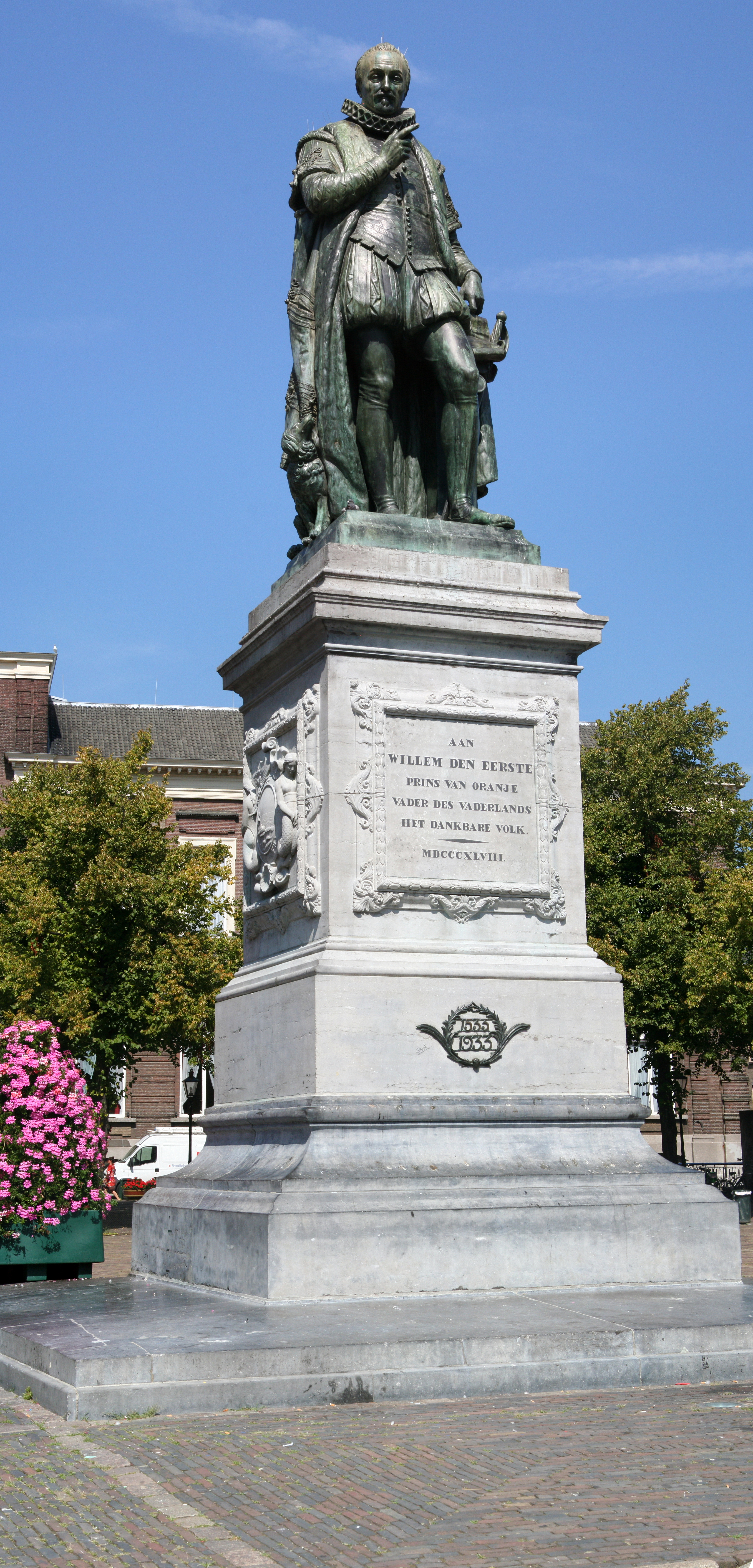 Statue of William of Orange/William the Silent in the center of The Hague, The Netherlands. Made with Canon EOS 350D, stichted together using PTgui.